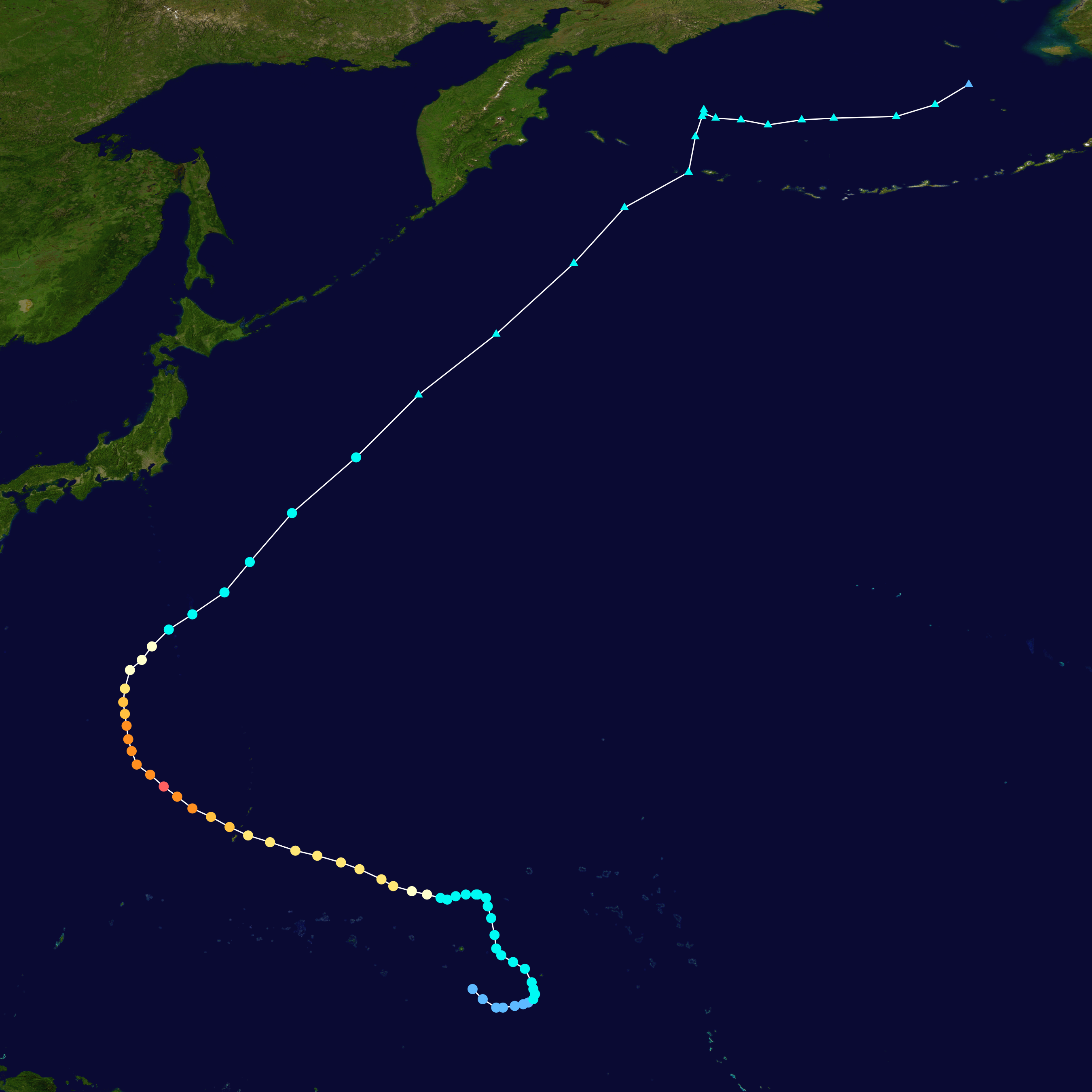 Track map of Typhoon Dolphin of the 2015 Pacific typhoon season. The points show the location of the storm at 6-hour intervals. The colour represents the storm's maximum sustained wind speeds as classified in the Saffir–Simpson scale (see below), and the shape of the data points represent the nature of the storm, according to the legend below. Saffir–Simpson scale Tropical depression≤38 mph≤62 km/h Category 3111–129 mph178–208 km/h Tropical storm39–73 mph63–118 km/h Category 4130–156 mph209–251 km/h Category 174–95 mph119–153 km/h Category 5≥157 mph≥252 km/h Category 296–110 mph154–177 km/h Unknown Storm type Tropical cyclone Subtropical cyclone Extratropical cyclone / Remnant low / Tropical disturbance / Monsoon depression